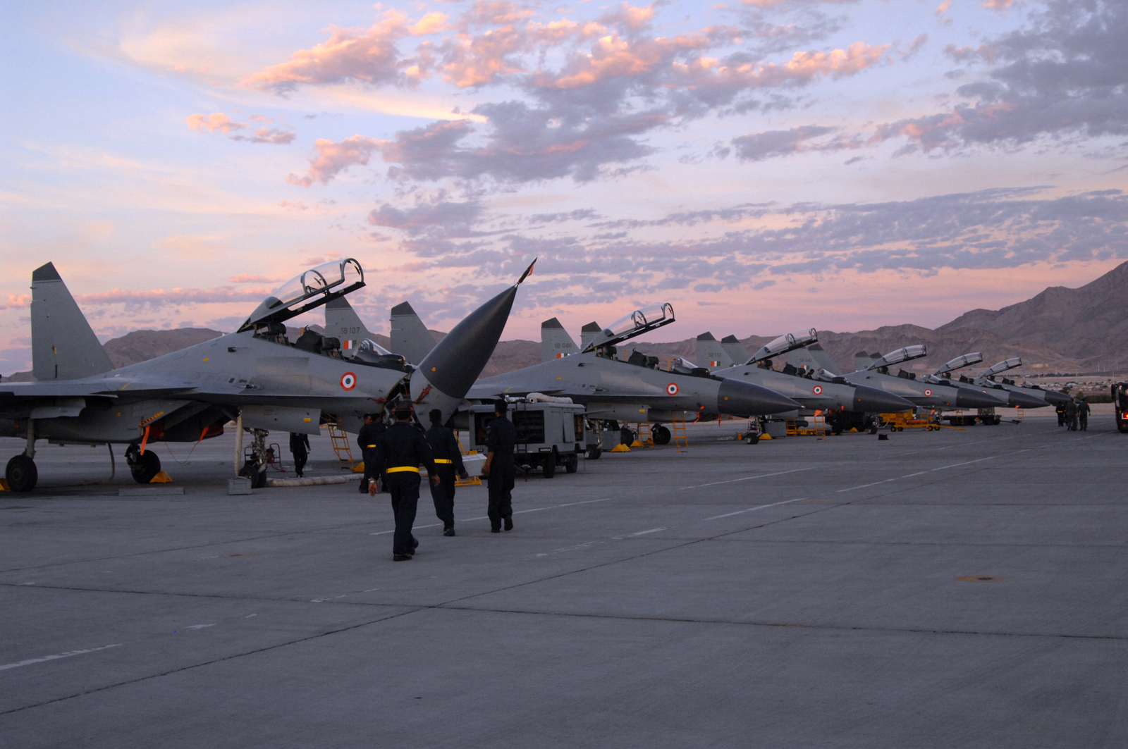 Aircraft maintainers with the Indian air force conduct post-flight maintenance on a Su30MKI Fighter following a Red Flag mission at Nellis Air Force Base, Nev. Aug. 13 2008. The Indian air force is at Nellis for Red Flag 08-4, a two-week exercise that pits forces in a realistic aerial "battlefield" to hone the fighting skills of American and allied airmen. Republic of Korea, Indian, Navy and Air Force teams are joining the Indian air force in Red Flag 08-4.